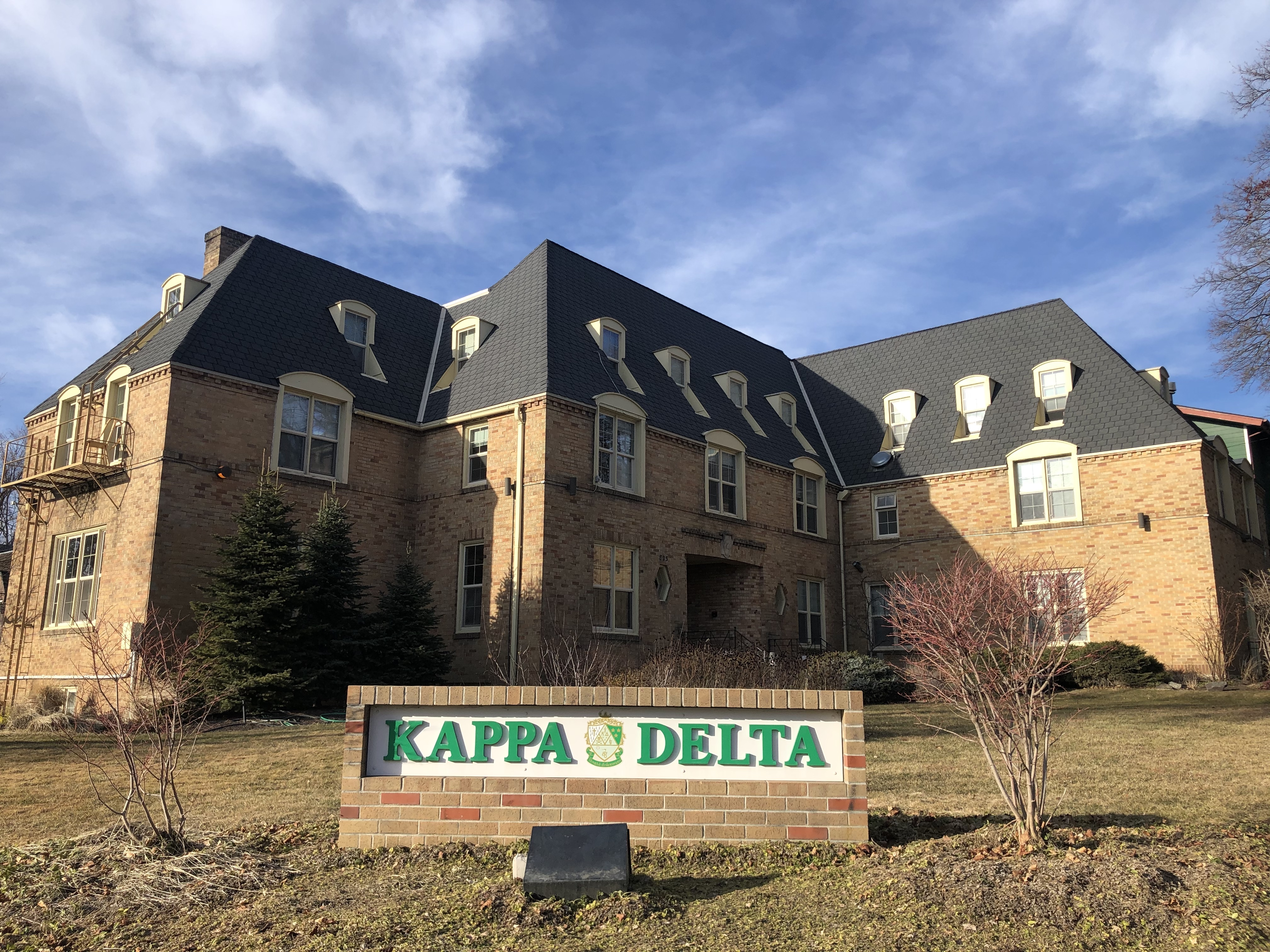 The Kappa Delta House at Washington State University is depicted in this photo.